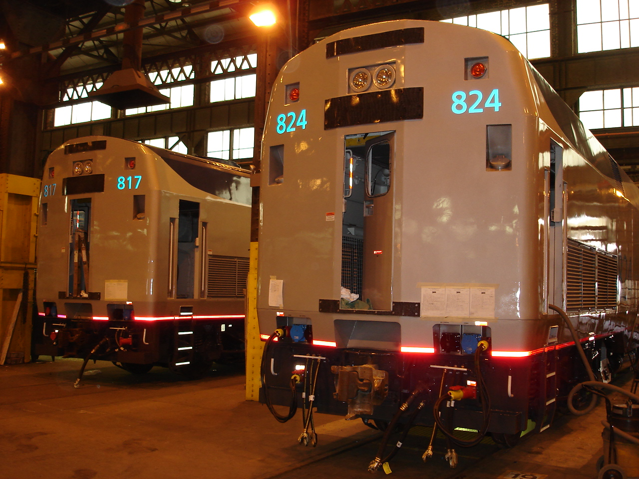 2 Rebuilt Amtrak P40 locomotives #824 and # 817 at the Beech Grove Shops.